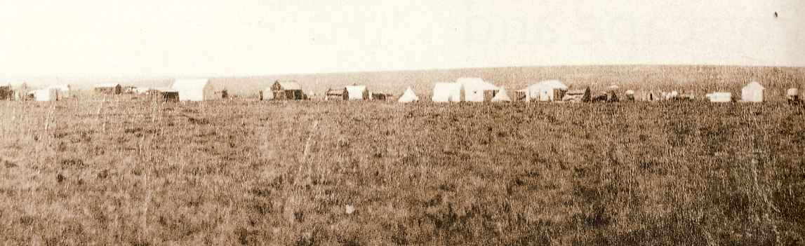 The first settlement in what became Johannesburg - Ferreira's Camp in 1886, soon after the "gold rush" began